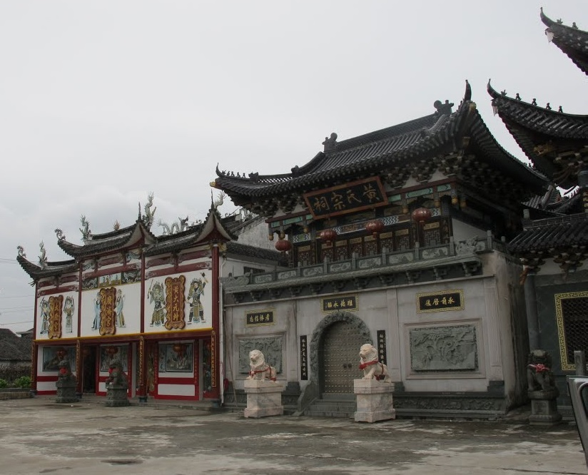 七都黄氏祠堂与广济宫, Guanji temple (left) and Huang shrine (right) in Lucheng, Wenzhou, Zhejiang, China.